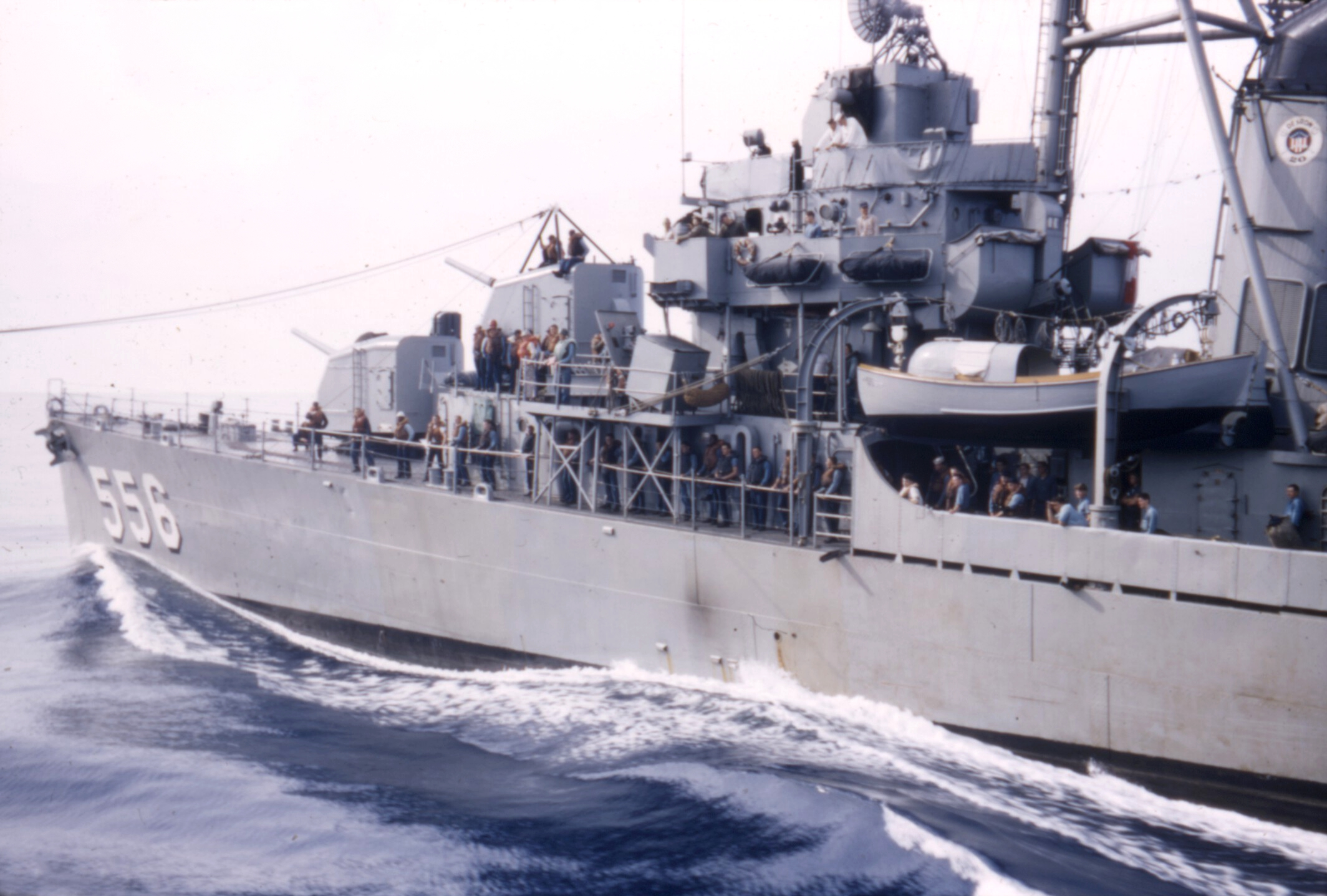 The U.S. Navy destroyer USS Hailey (DD-556) alongside another ship during a highline transfer in the Mediterranean Sea, in 1957.